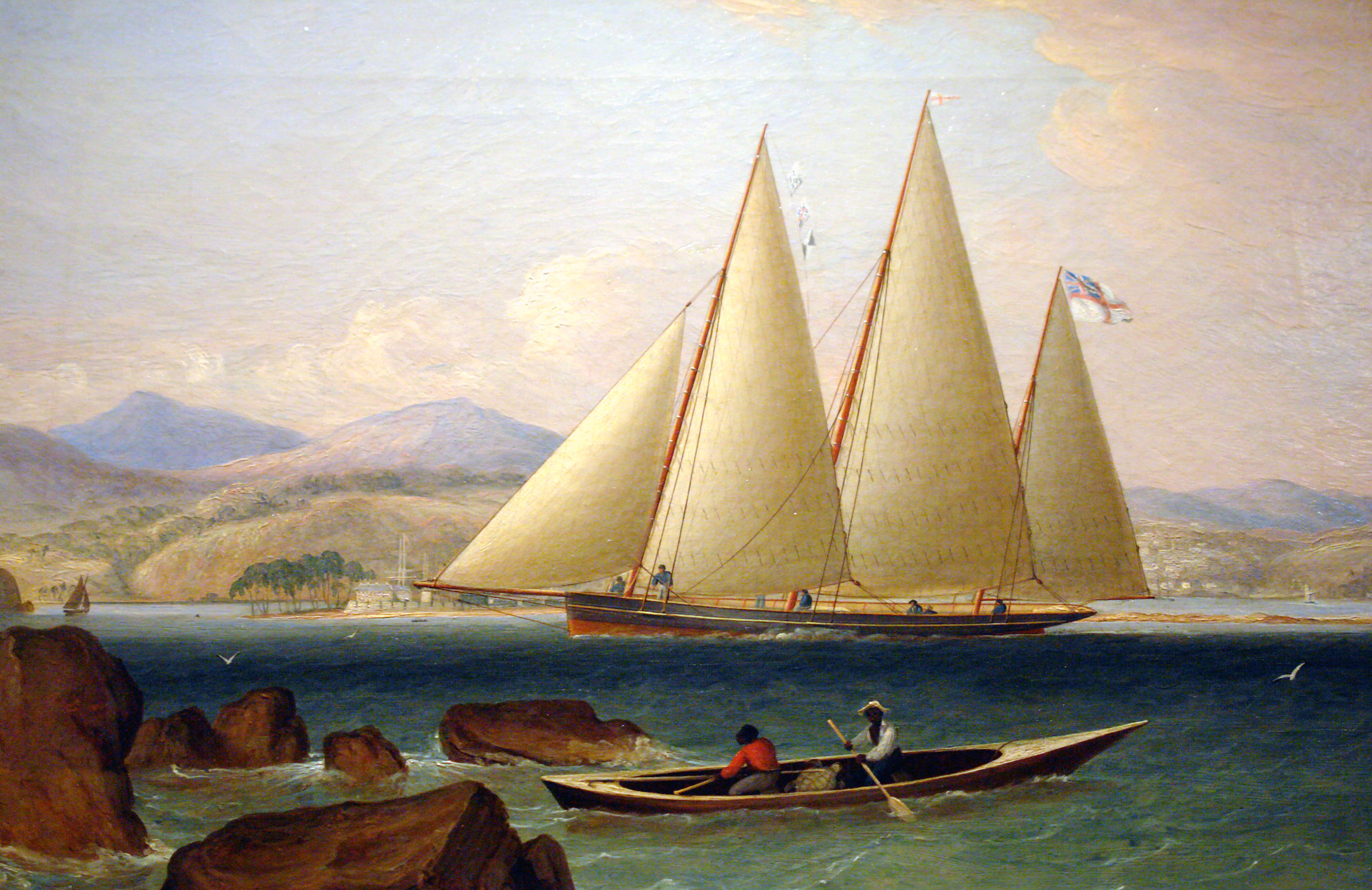 A Bermuda sloop of the Royal Navy, entering port in the West Indies. Beginning in the 1790s, the navy procured large numbers of these Bermudian vessels, some ordered directly from builders in Bermuda, with others bought up from commercial trade. The most noteworthy example was HMS Pickle, which brought home news of British victory at the Battle of Trafalgar. The Bermudian ships, which might have from one to three masts, were employed at first to counter the menace of French privateers in western waters, and later became the standard advice vessels of the fleet - communications carriers, and fast transports of vital materials or persons. They were also used for reconnaissance, chasing slave smugglers, and other uses. The vessel shown may be the earliest recorded example of the modern, triangular Bermuda rig on a multiple-masted vessel, though the rig had been used in Bermuda for some time before that.